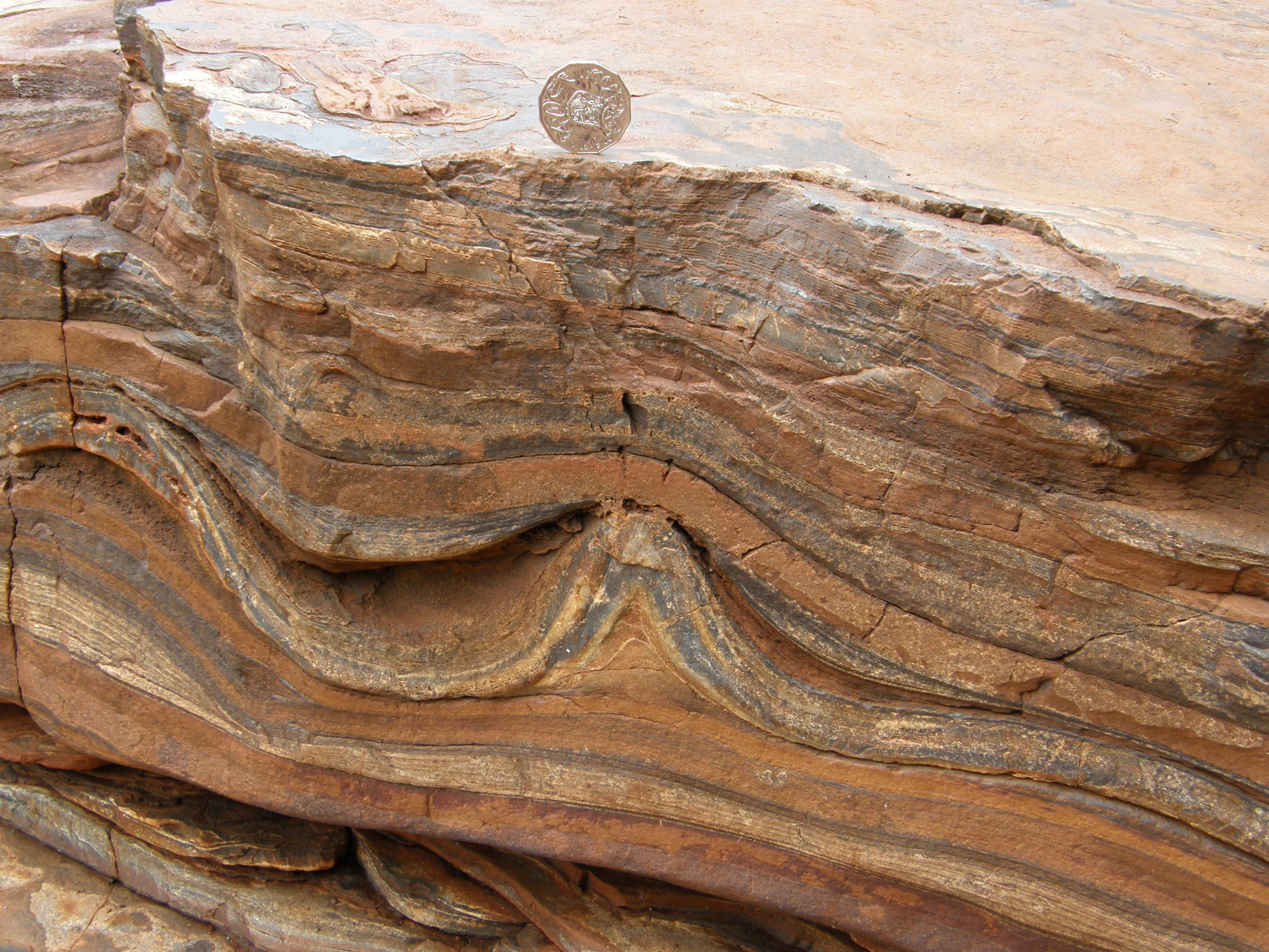 Deformed Banded Iron Formation in Dales Gorge, Pilbara, WA